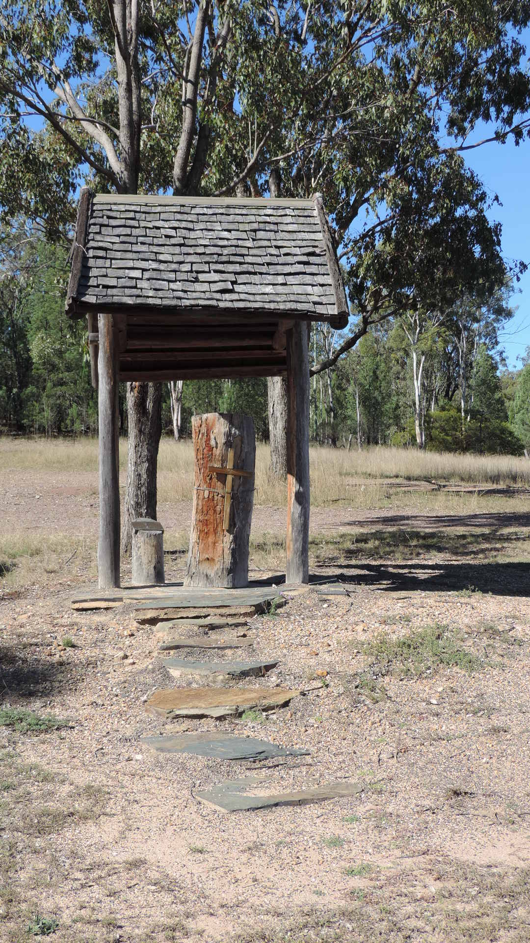 Grave marker for gold miner Dan Bray, St Augustines Anglican Church, Leyburn, 2015